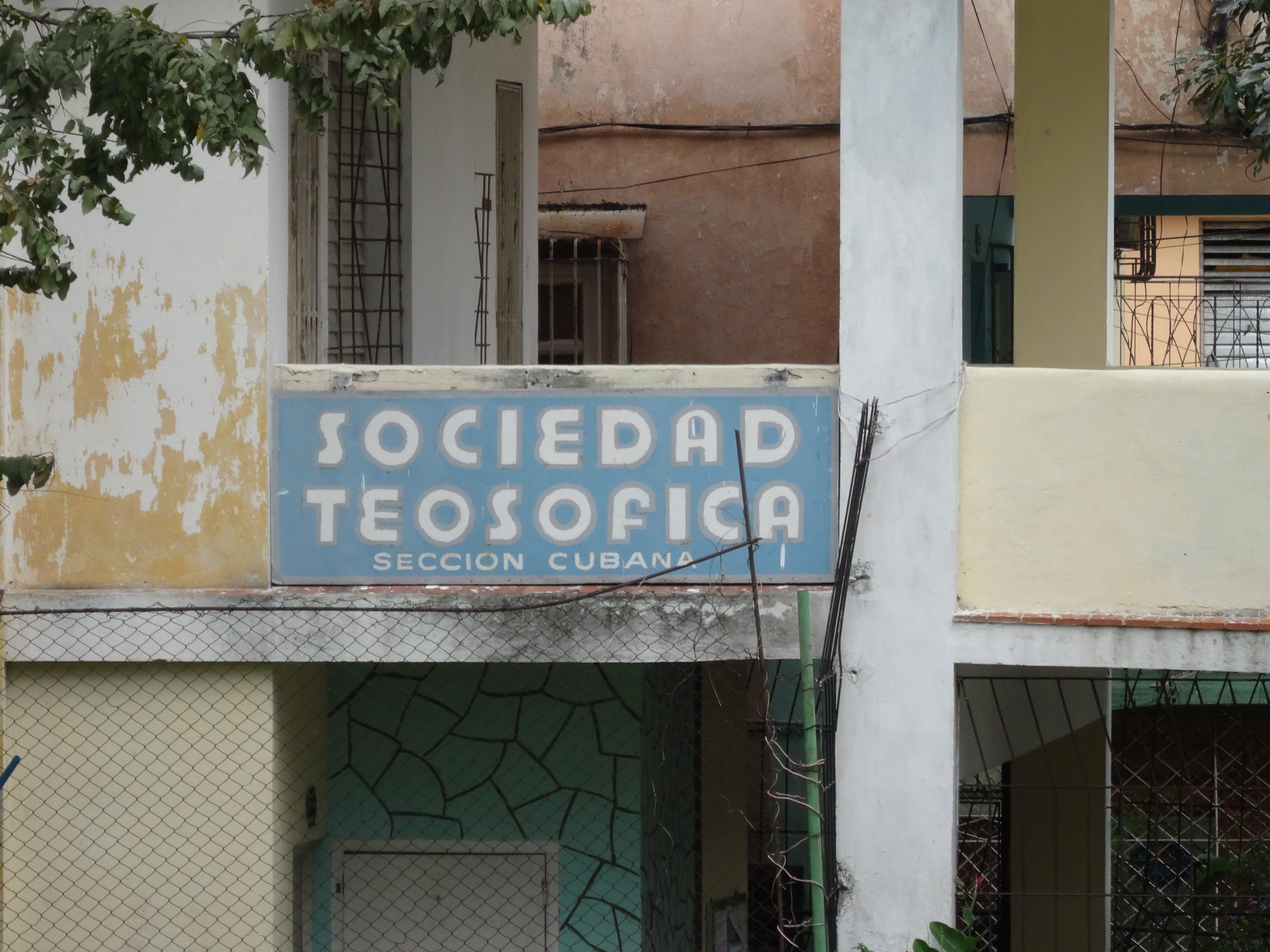 Cuba, Havana, Sociedad Teosofica - Theosophical Society